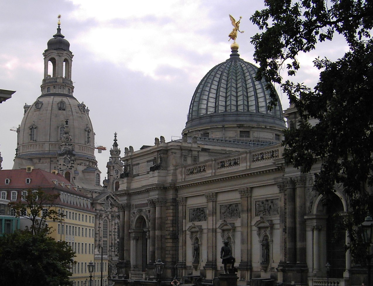 Dresden, College of Art (right) and Frauenkirche in the background.